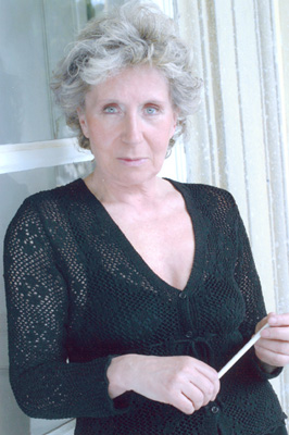 jpeg format, 60 Kb - Francesca Duranti, italian writer